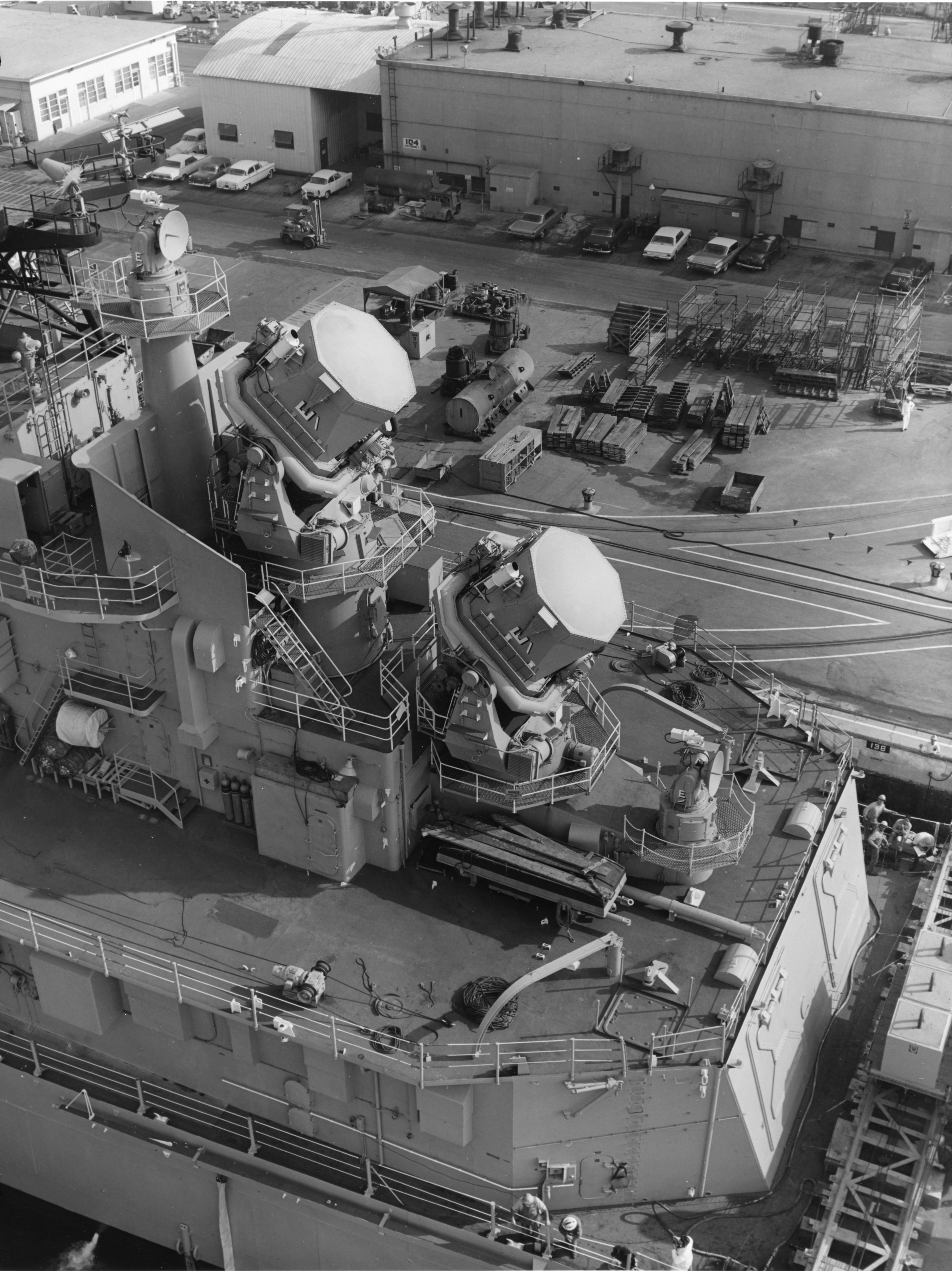 USS Oklahoma City (CLG-5): Plan view of guidance radars for the ship's RIM-8 Talos guided missiles atop her after superstructure, looking to starboard, taken while she was undergoing an inclining experiment at the Long Beach Naval Shipyard, California (USA), 19 October 1963. These antennas include SPW-2 (smaller dish antennas) and SPG-49, the latter with "E with a hashmark" awards painted on them.